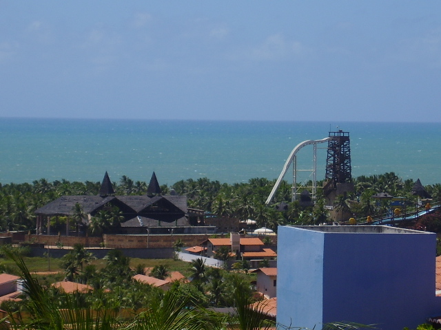 Beech park view from a hotel